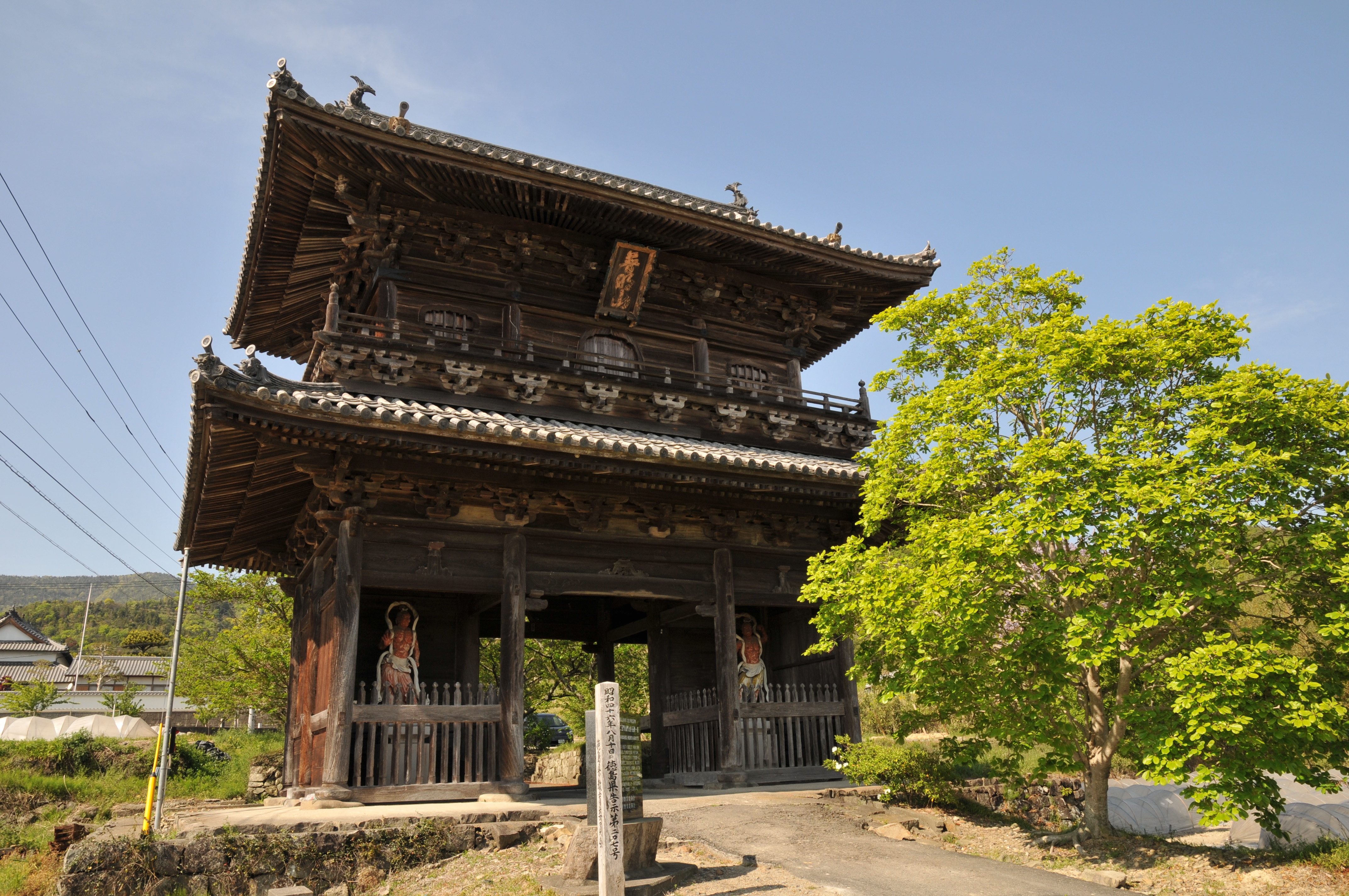 Temple gate, Kumatani-ji